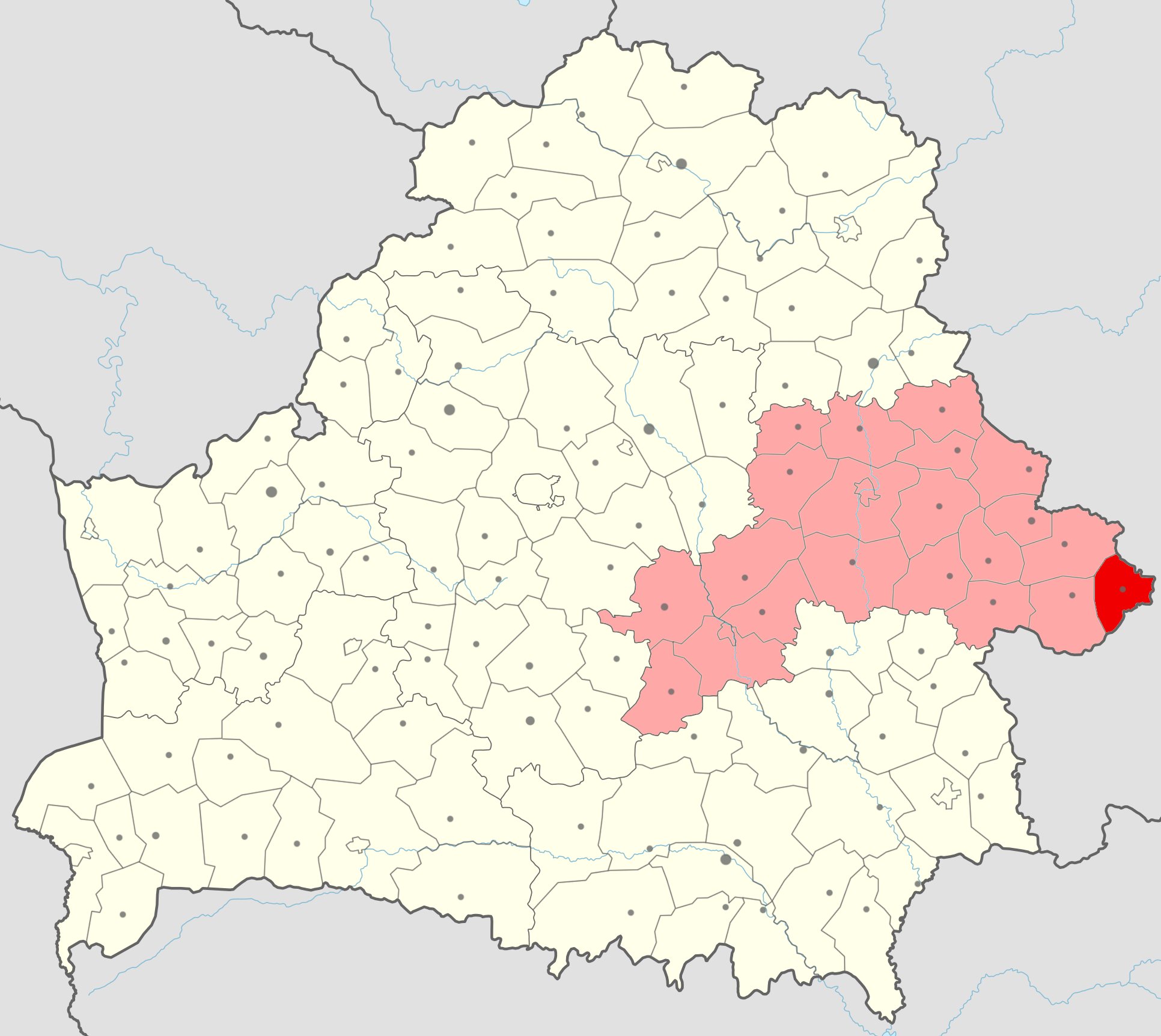 Location of Chocimski rajon (red) in Mahilioŭskaja voblasć (light red) in Belarus.